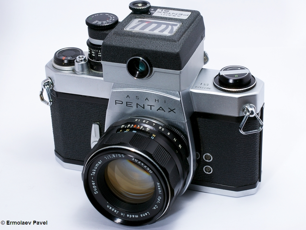 SLR-camera Asahi Pentax SL with compact light meter "Asahi Pentax Meter" on pentaprism